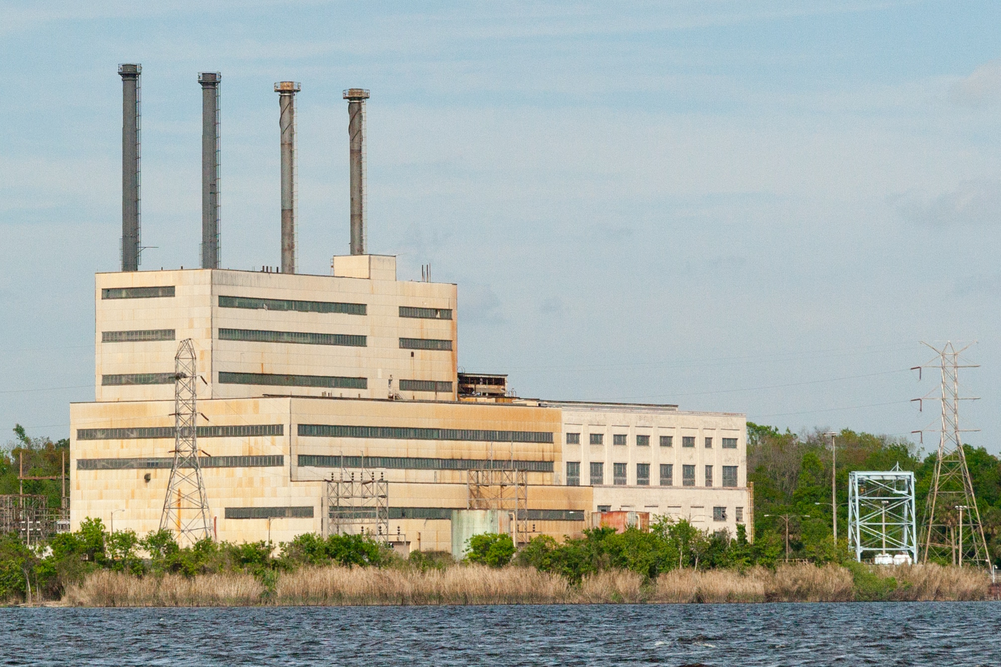 George E. Turner Power Plant in Enterprise, Florida (cropped). Viewed from Lake Monroe looking northeast.